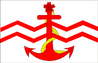 Secretary of the Navy of Japan.